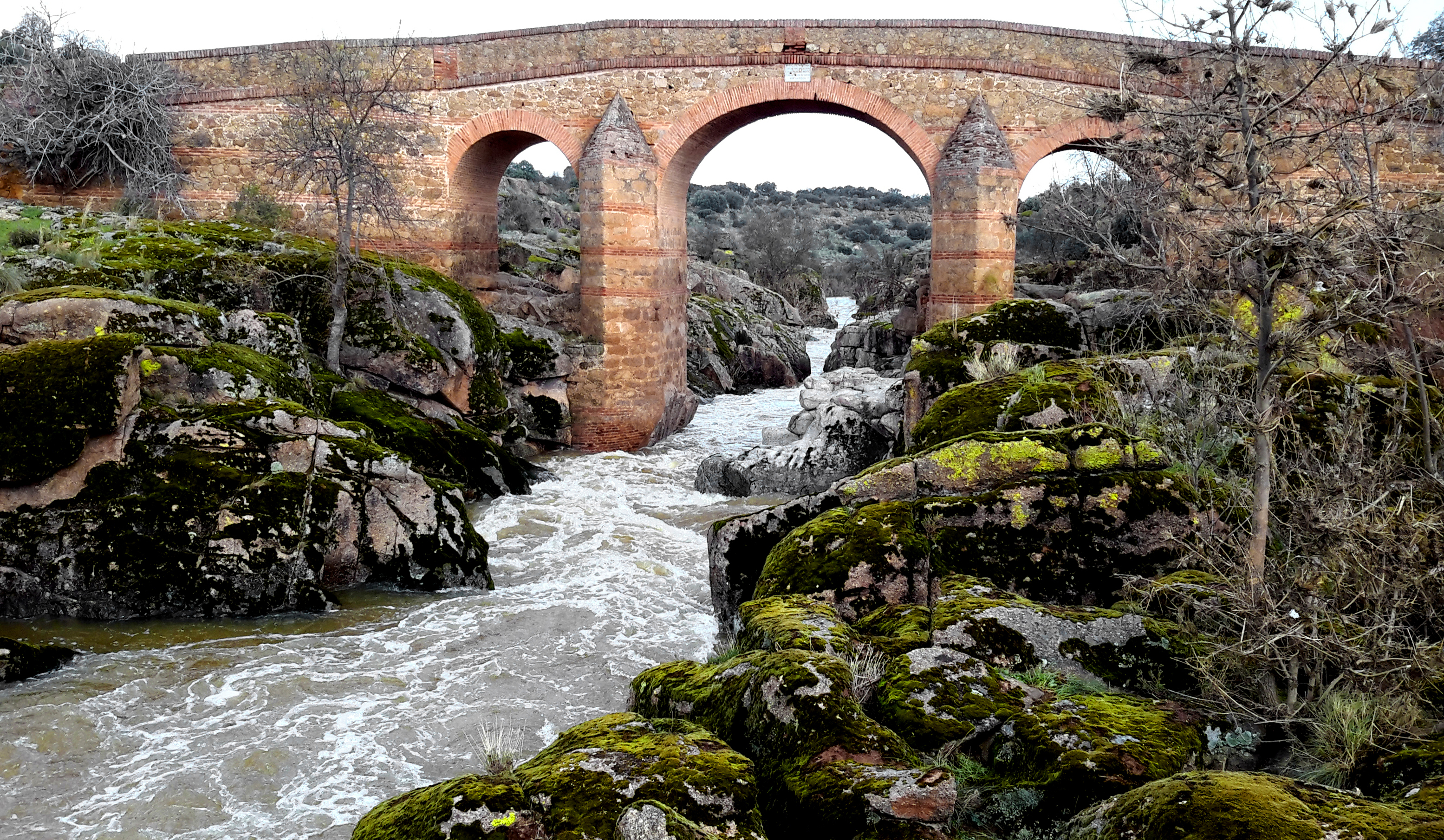 Old Bridge. Santa Ana de Pusa, Toledo, Castile-La Mancha, Spain